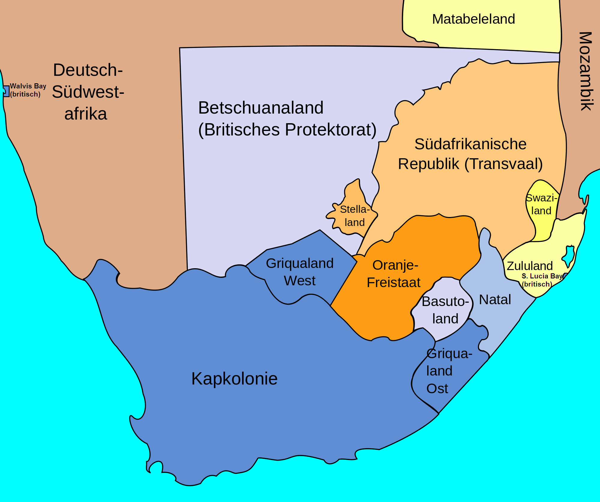 Map of South Africa showing British Possessions July 1885 (labels in German)